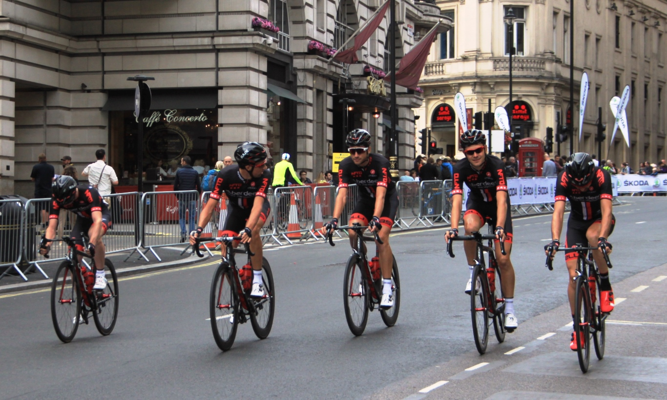 The NFTO team take a look at the circuit for stage 8 of the 2015 Tour of Britain.